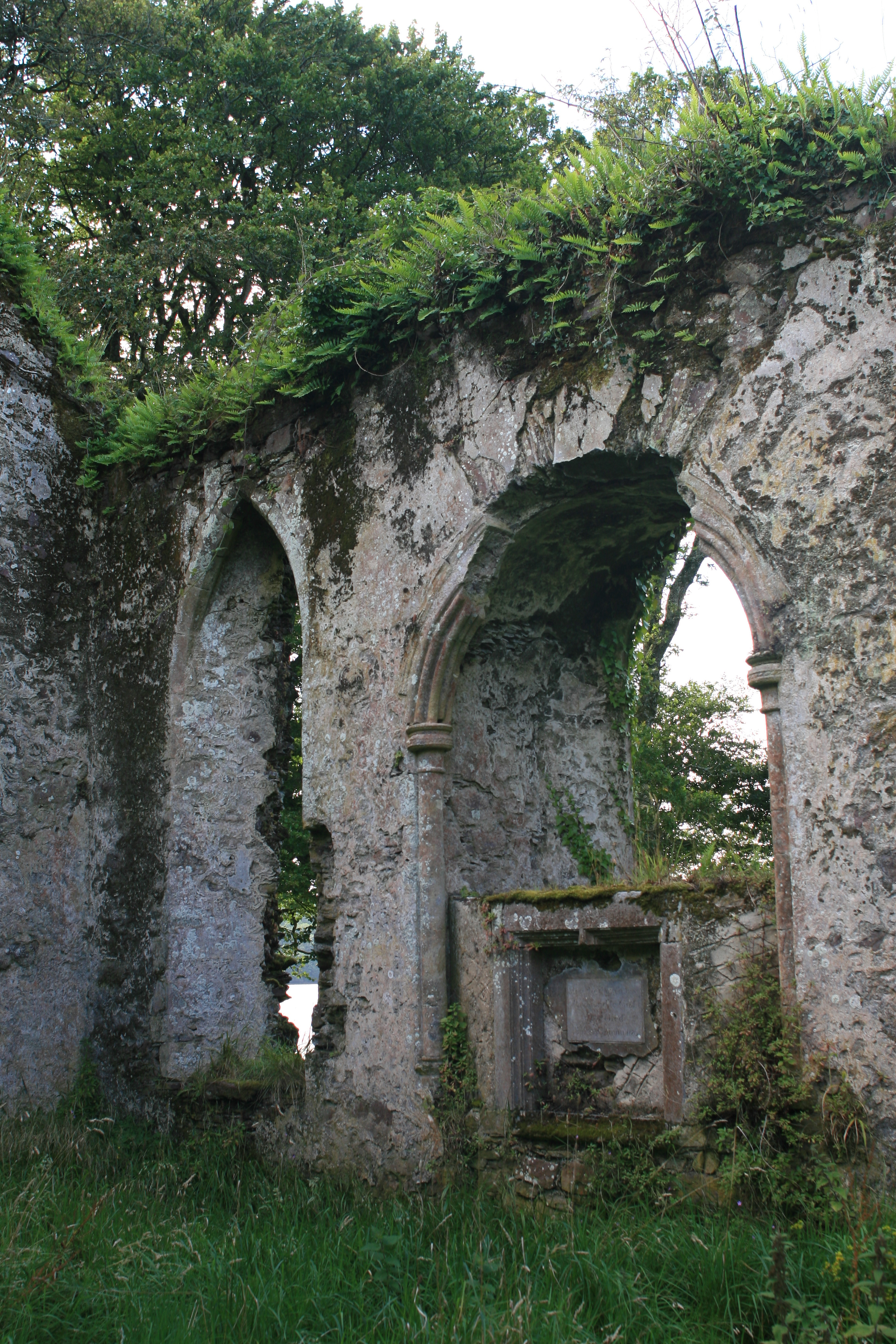 Molana Priory, County Waterford, Ireland 13th century refectory along with the reader's pulpit recess where a 19th century plate has been erected with the following inscription: Here lie the Remains of Raymond le Gros Who Died Anno Domini 1186